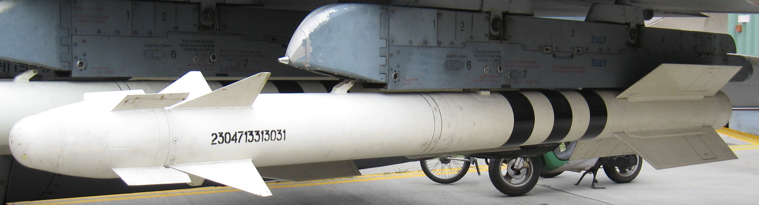 R-73/AA-11 Archer missile on a Hungarian AF MiG-29